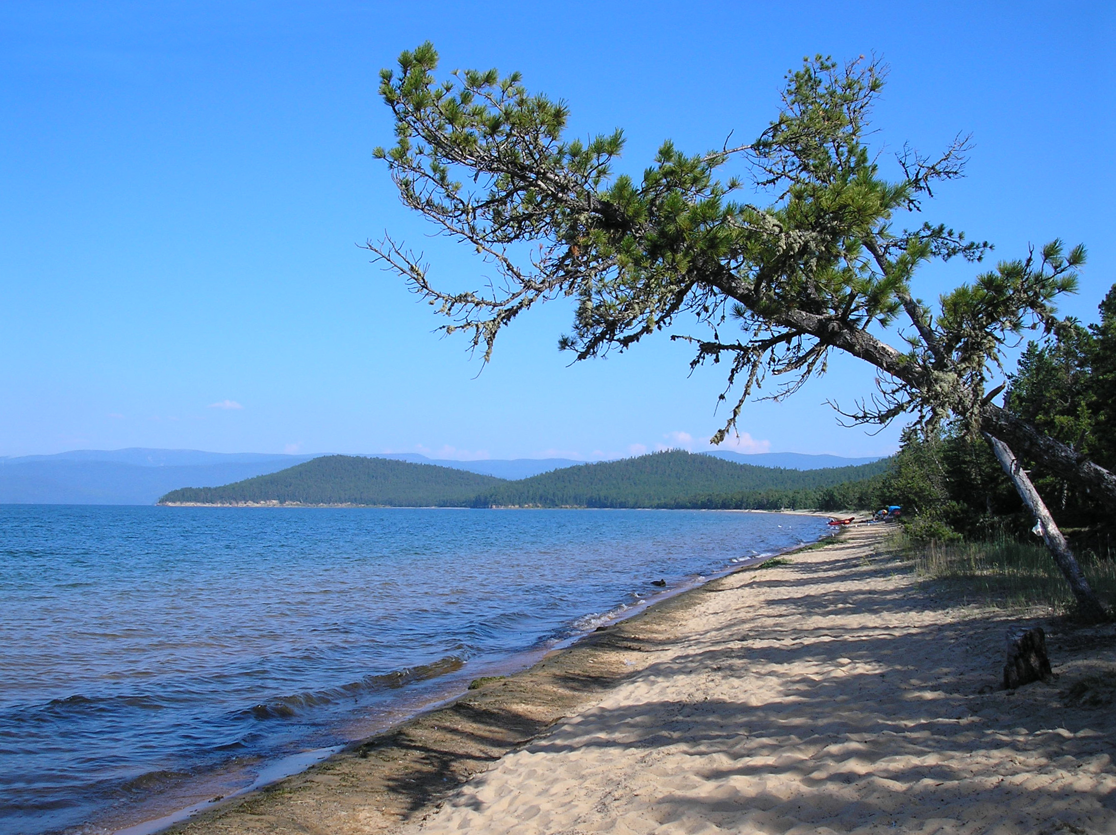 Lake Baikal. Tree is Pinus sibirica.